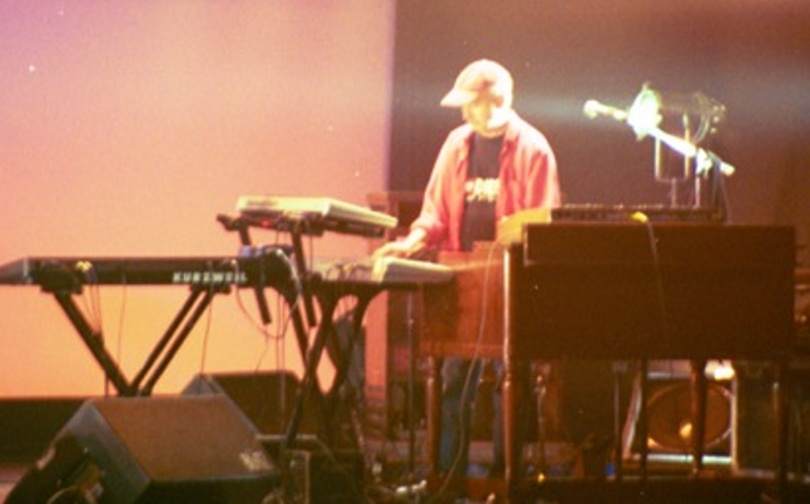 Toivo Pilt (keyboards) from Sebastian Hardie performing live in Japan